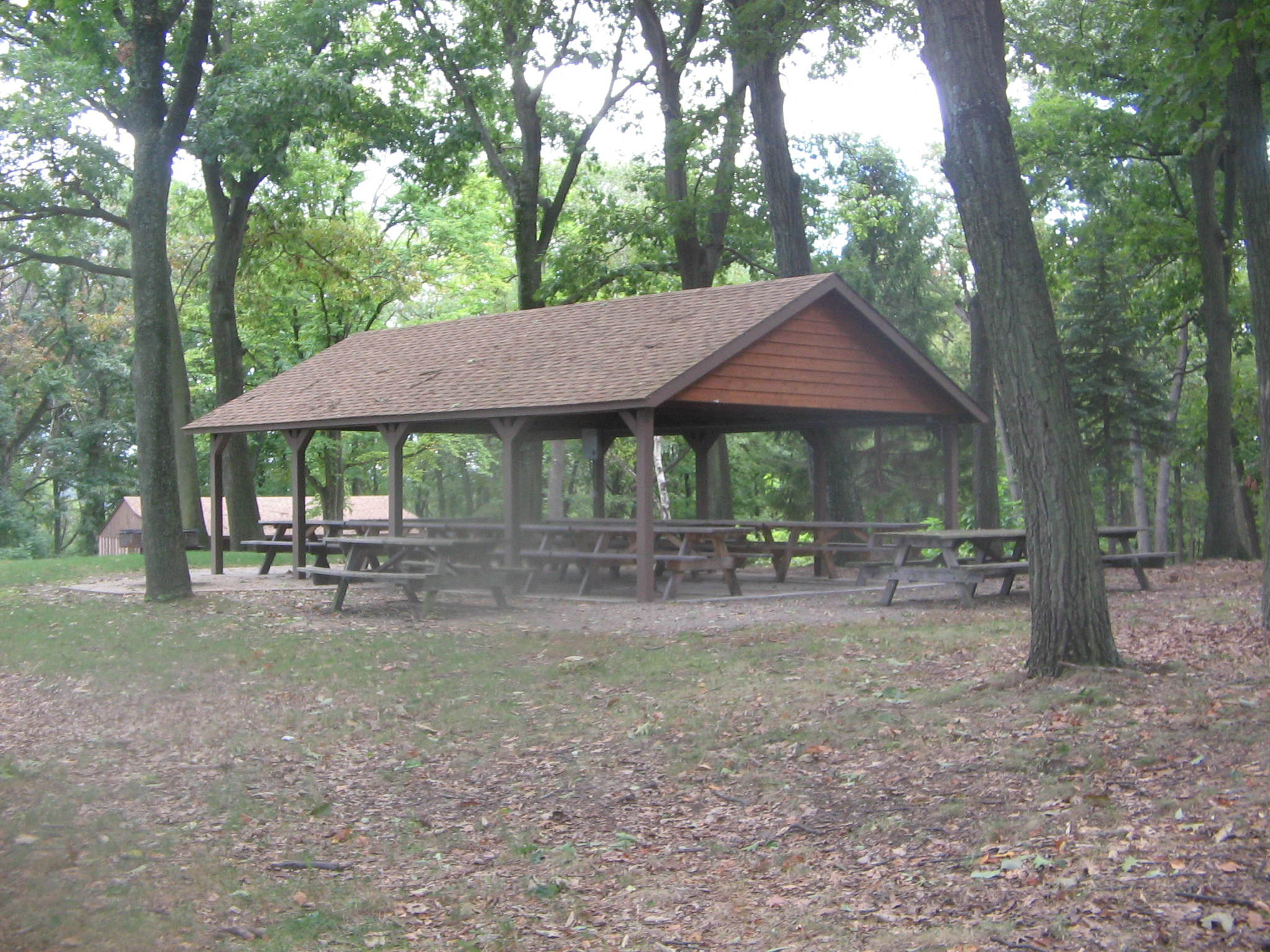 Shikellamy State Park Overlook Picnic Shelter Union County, Pennsylvania, USA.